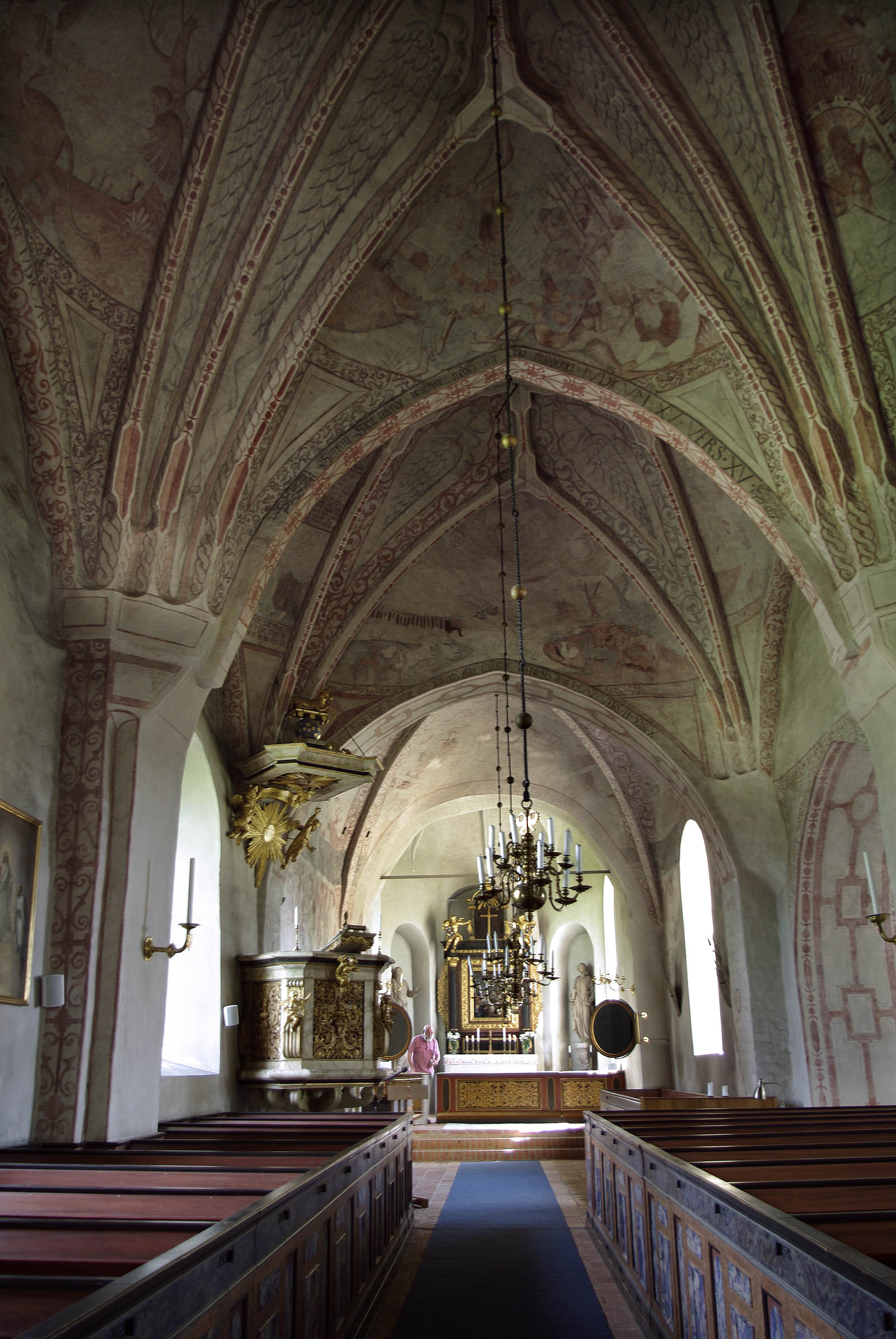 Bälinge church in Sweden with famous wall paintings made by Peder The Painter 1621-1622.